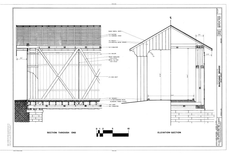 Long Truss diagram from HAER